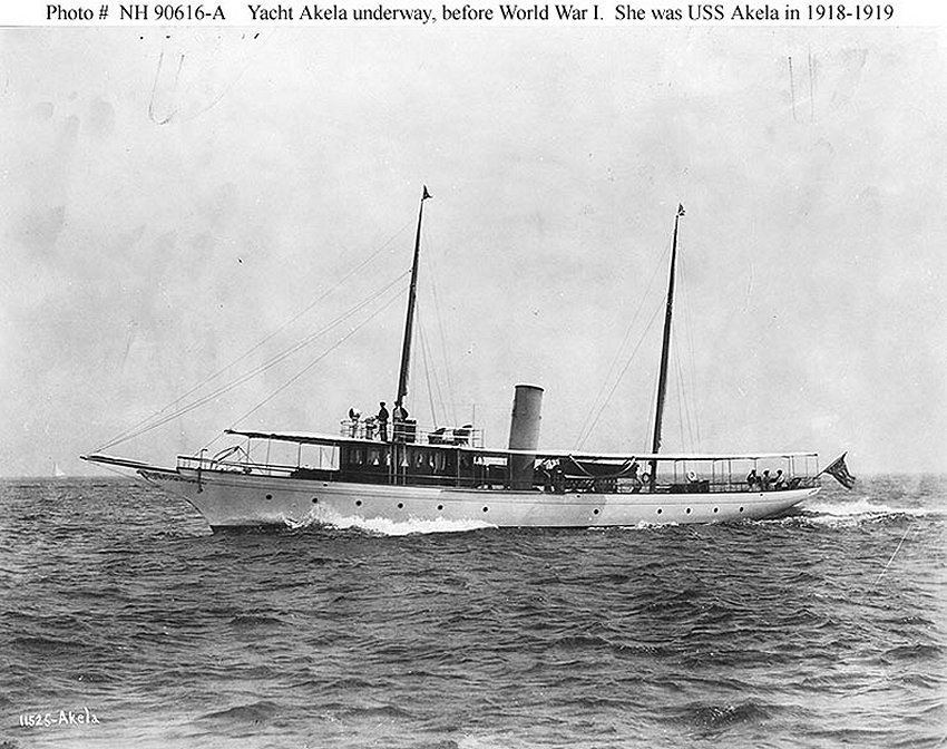 Underway prior to World War I. U.S. Navy photo NH 90616-A